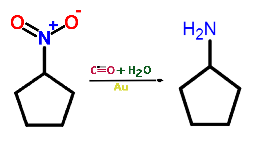 Cyclopentanamine synthesis from nitrocyclopentane